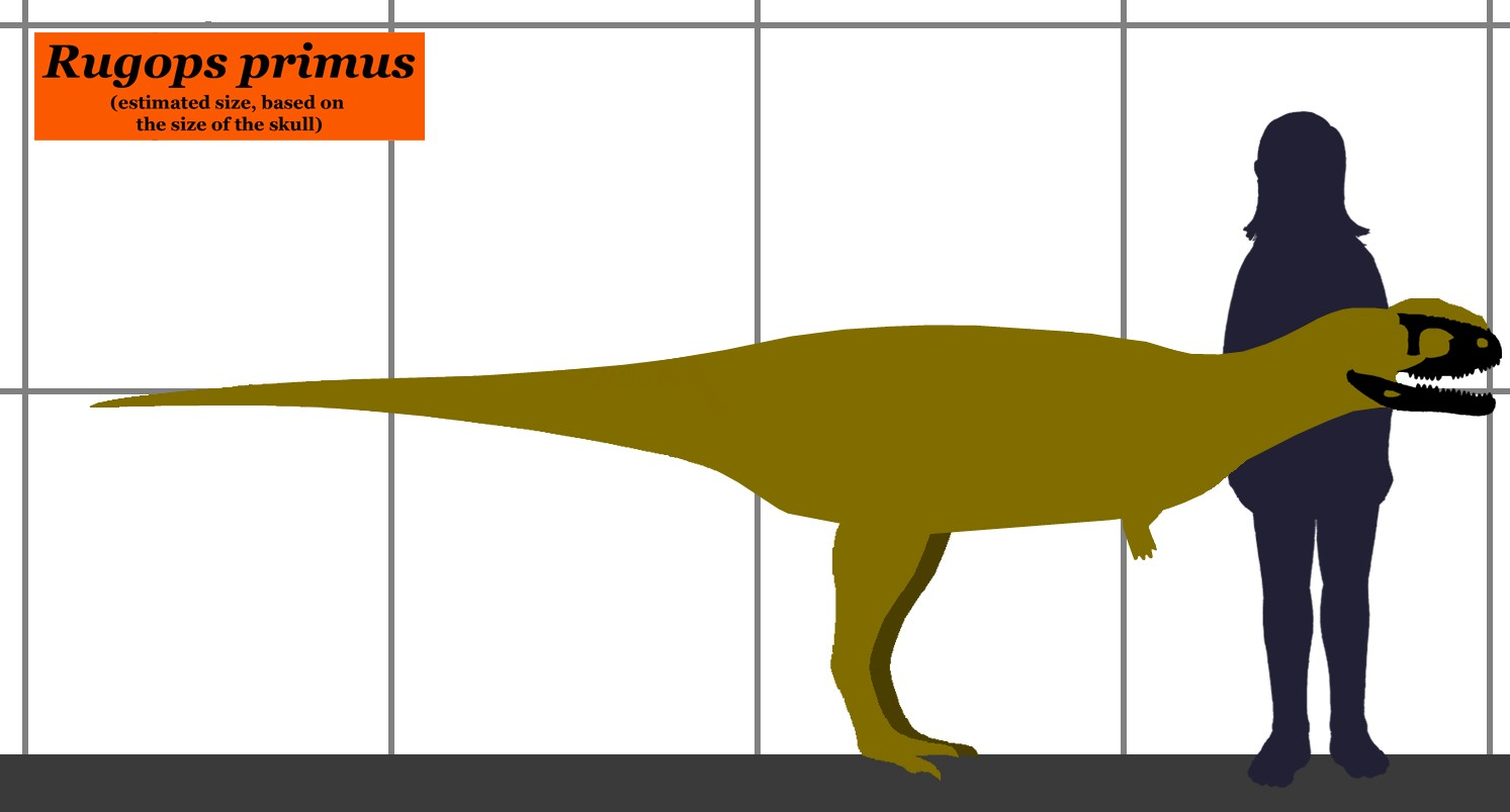 Size comparison between the theropod dinosaur Rugops and a human.